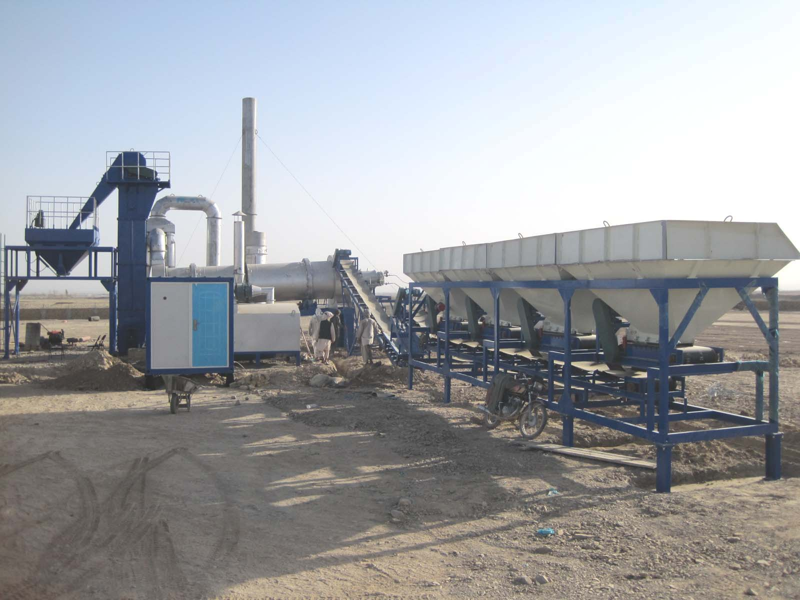 DHB asphalt drum mix plant.